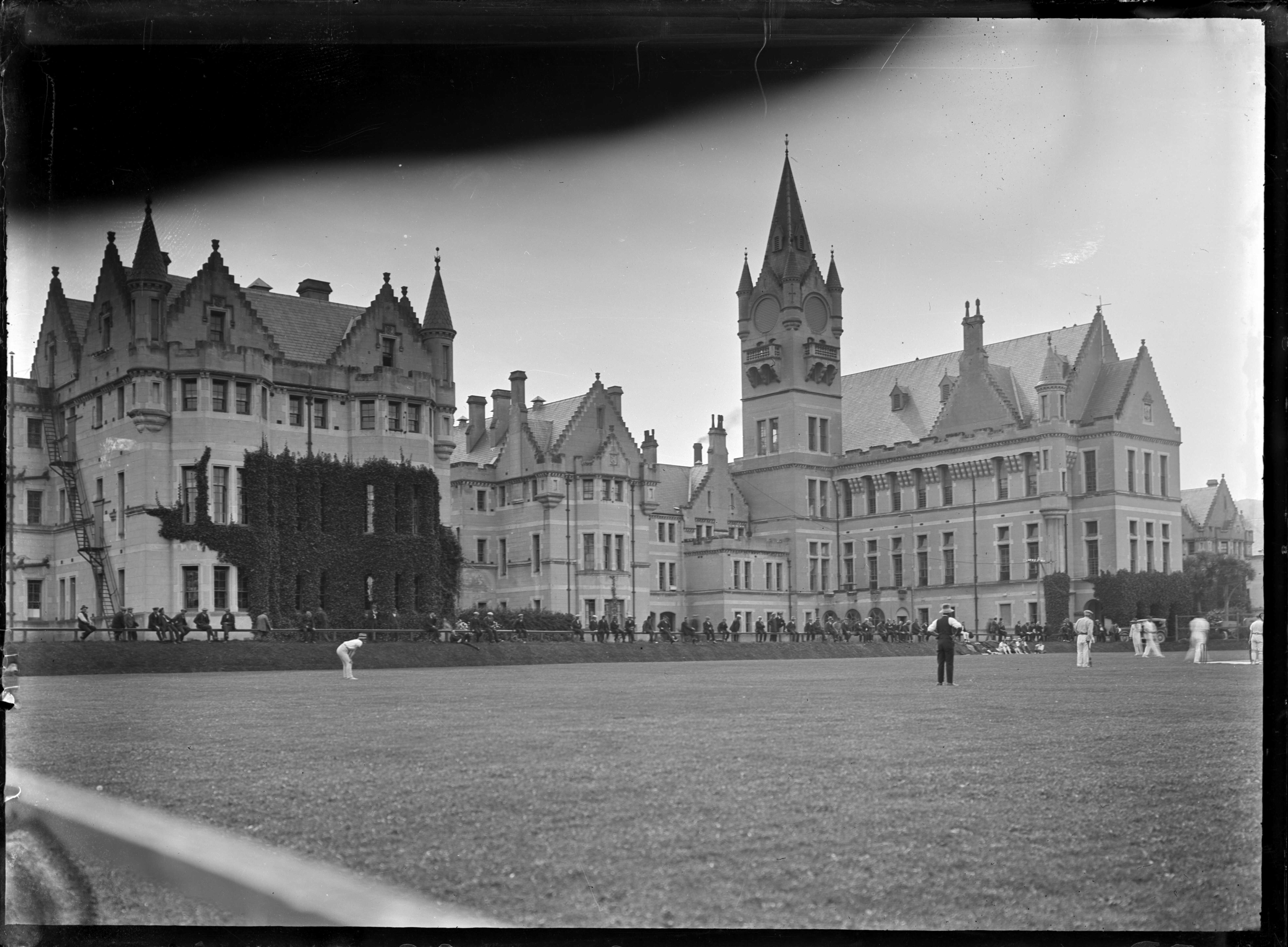 View of the psychiatric hospital at Seacliff, with many men seated on benches above a playing field watching a game of cricket. The hosptial was designed by Robert Lawson. Photograph taken by Albert Percy Godber circa 1926. Dated from other images in Godber Album Vol 109.